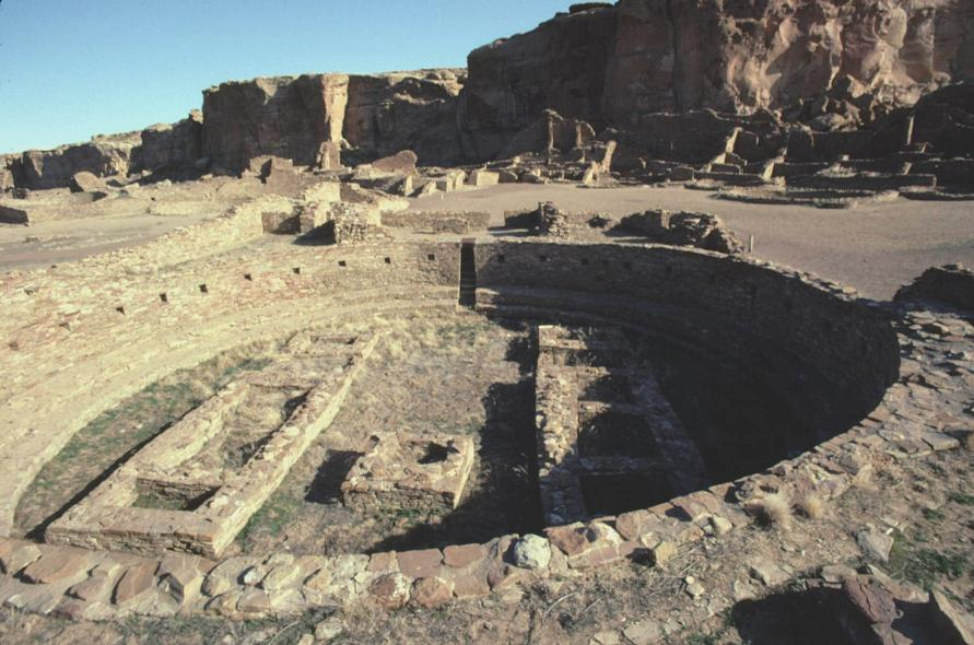 An image of the ruins of Pueblo Bonito in Chaco Canyon (New Mexico, United States); shown is the complex's great kiva.